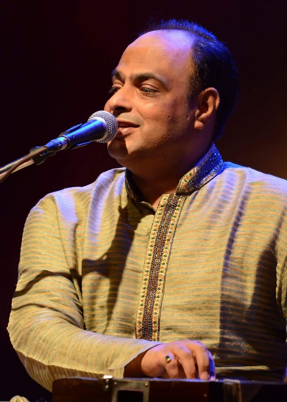 portrait of shishir parkhie